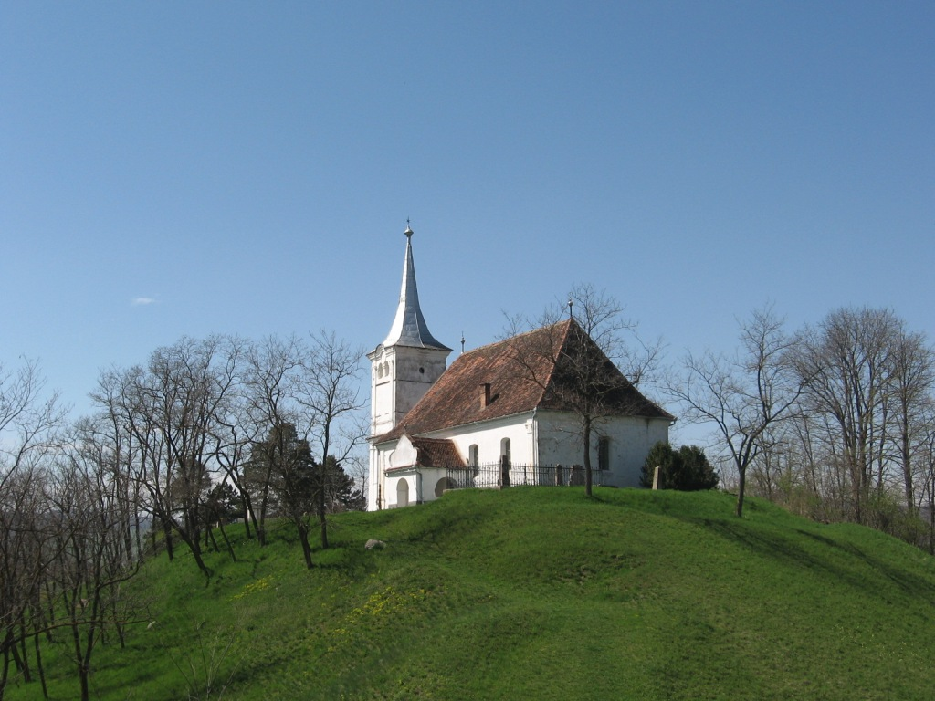 Covasna County ,Étfalva -Zoltán, Refomed church